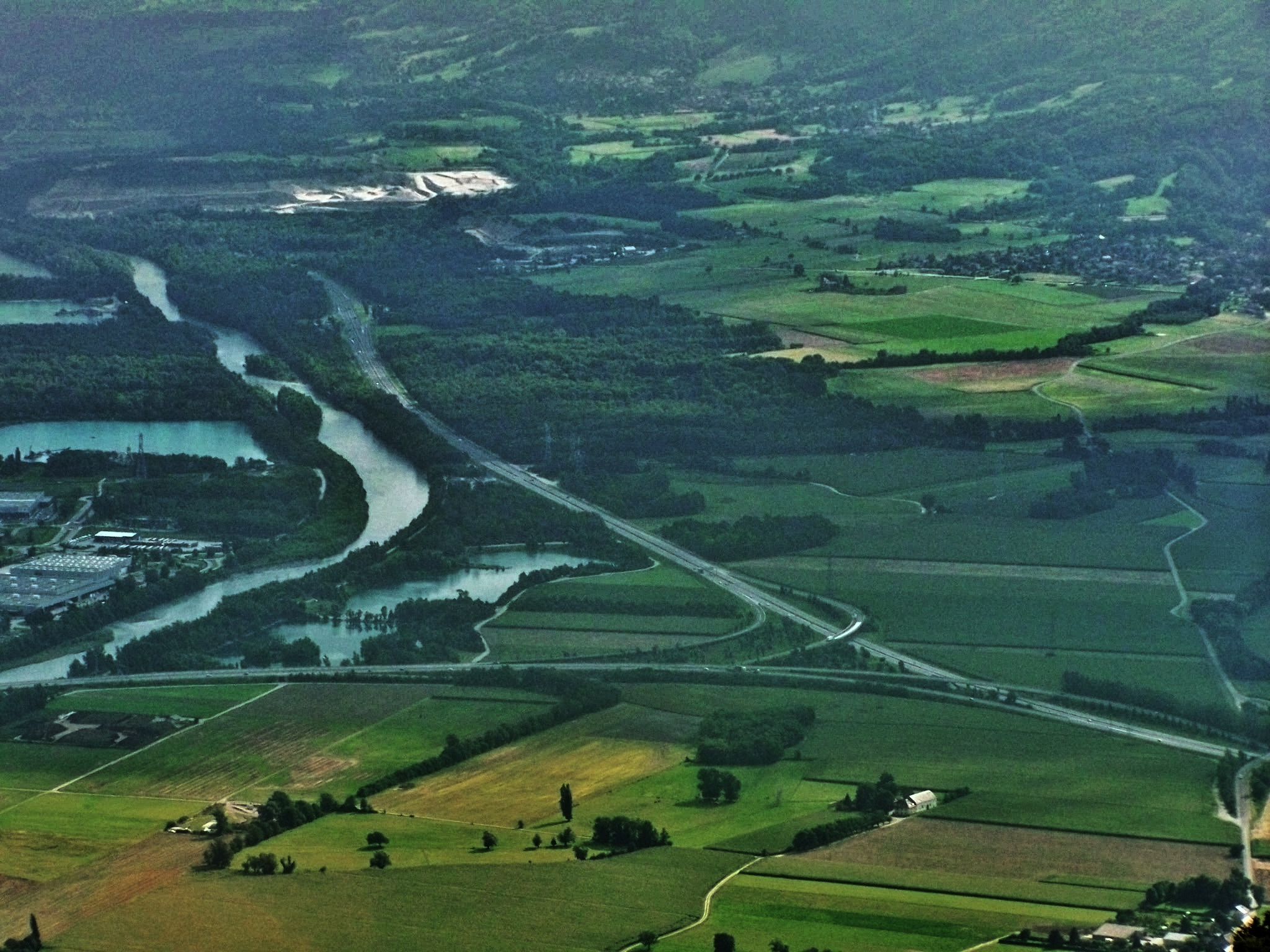 Interchange of French motorways A43 from Lyon to Italy (from right to left) and A41 to Grenoble (towards background along the Isère river), in Savoie.